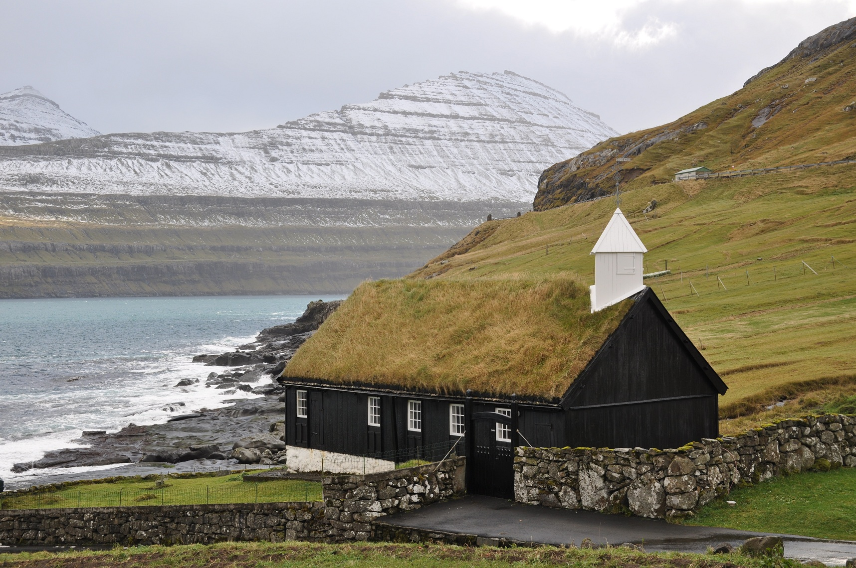 The church of Funningur (Eysturoy, Faroe Islands) is one of the 10 remaining old wooden churches in the Faroe Islands. It was inaugurated on 30 November 1847. The mountain behind the church, on the other side of the Funningsfjørður, is Dalkinsfjall (719 m).